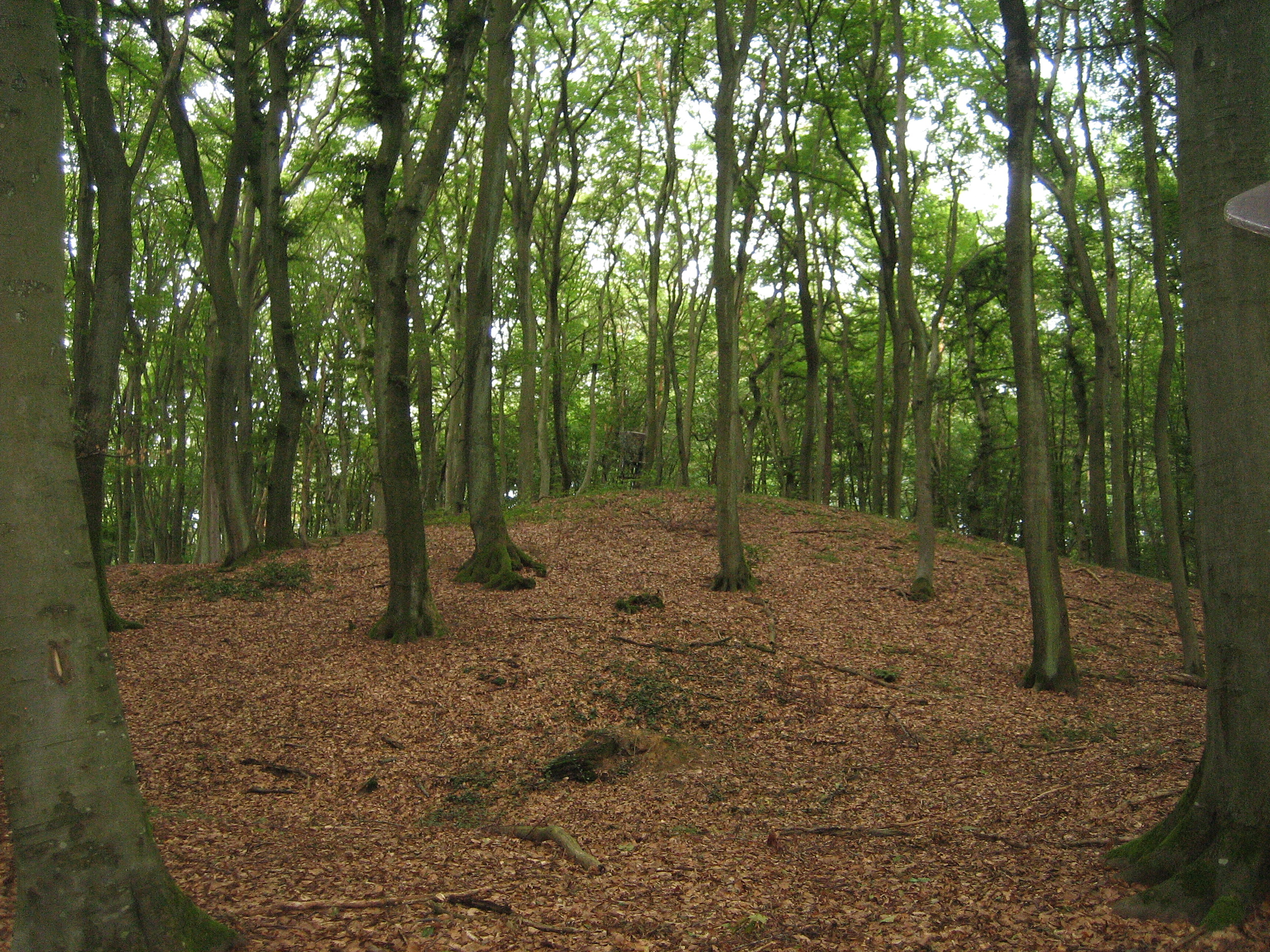 Celtic Tumulus (~ 430 B.C.) near Altrier, Luxembourg.